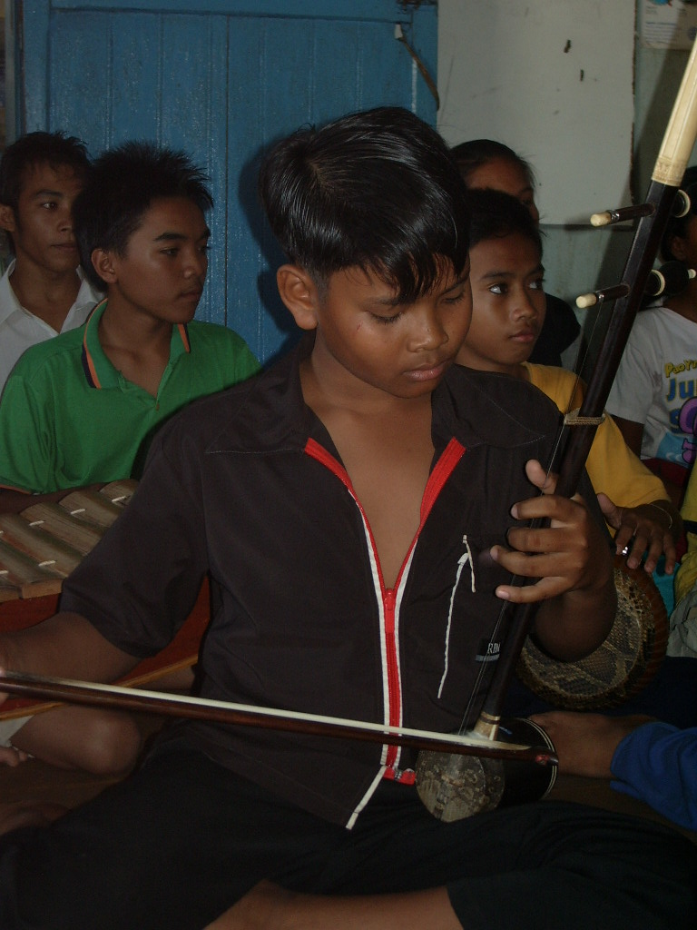 cambodia living arts classes in cambodia squatter community